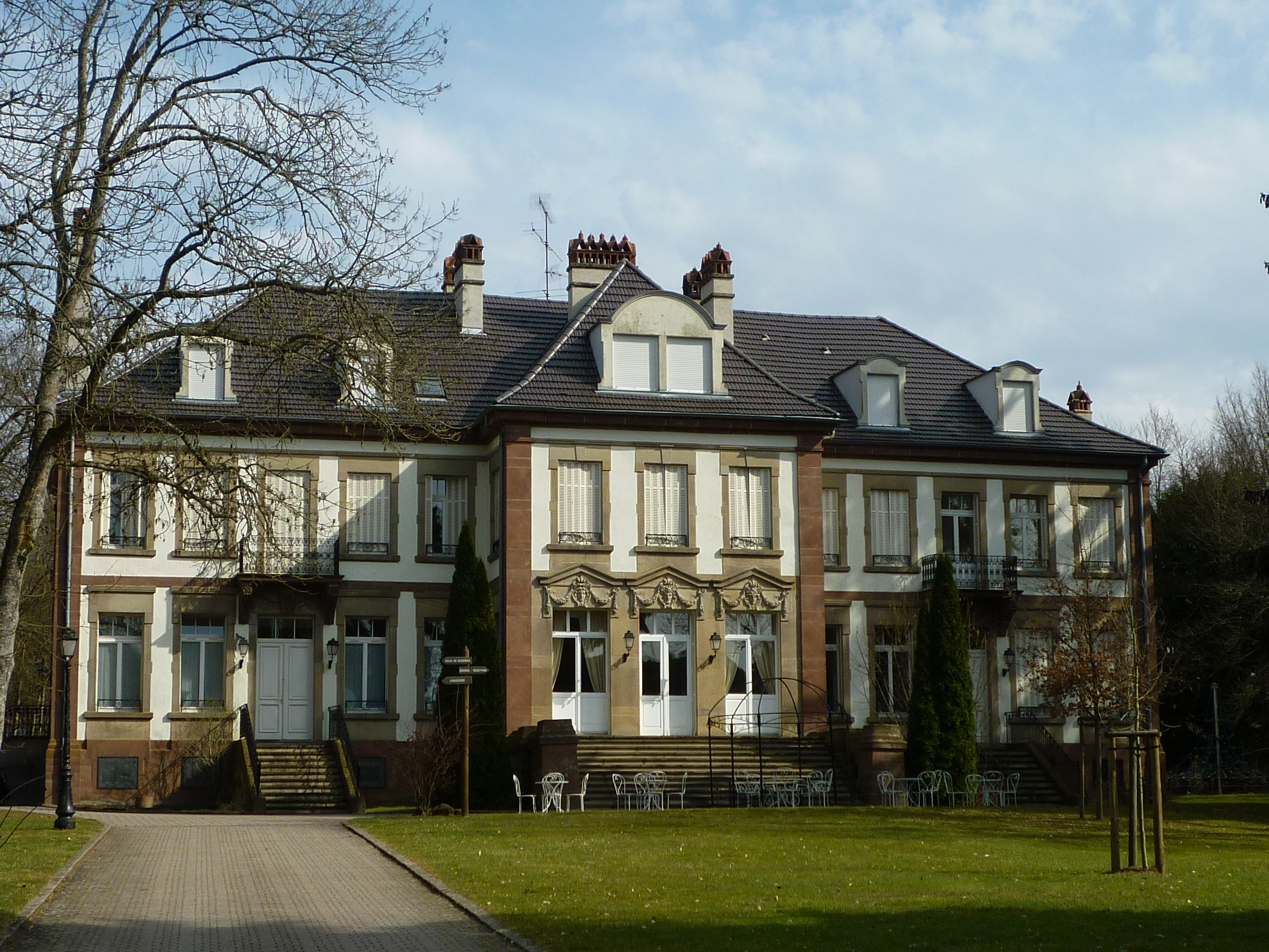 Front facade of the Teutsch house (French: Château Teutsch) in Wingen-sur-Moder, Bas-Rhin, France. It was constructed by the Teutsch family, who owned the adjacent Hochberg glass factory, between 1860-1866. The house was restored in 1990 and its exterior facade and roof have been registered as a monument historique (national heritage site) since 1996.